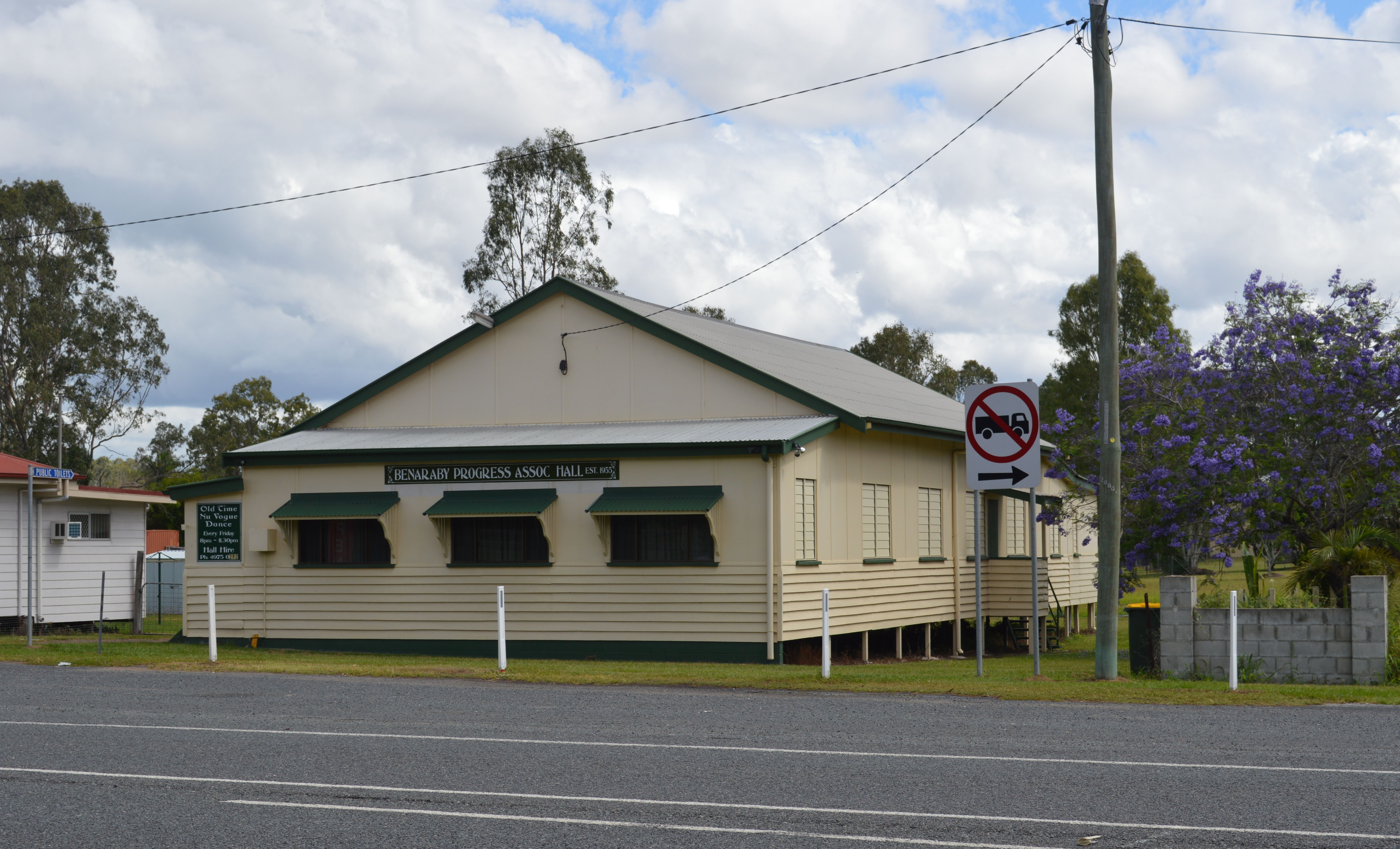 Benaraby Progress Association Hall at Beneraby, Queensland